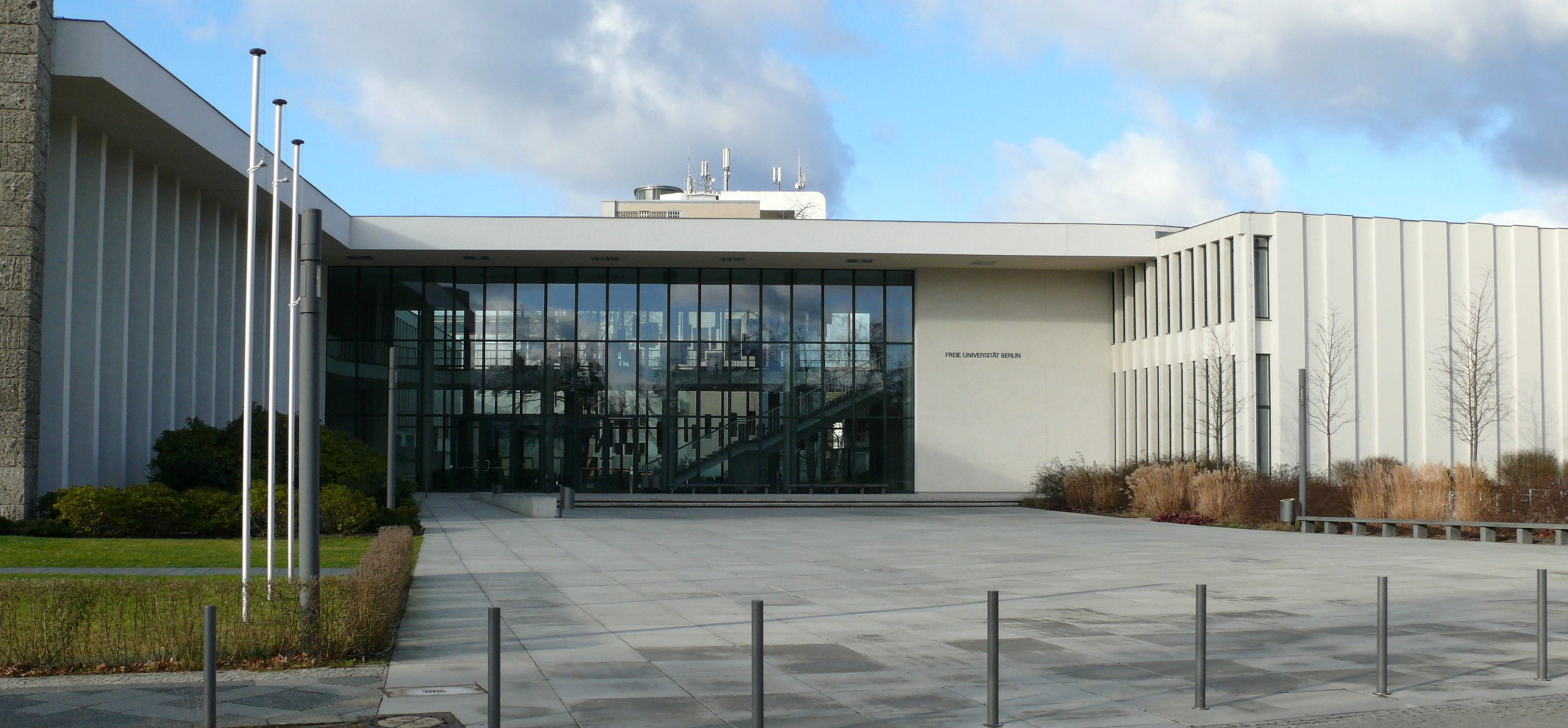 Henry-Ford-Building